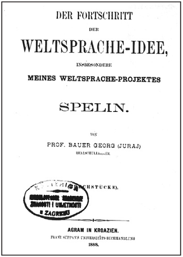 A cover of the book ˝Spelin˝, a proposed international auxiliary language by Juraj Bauer